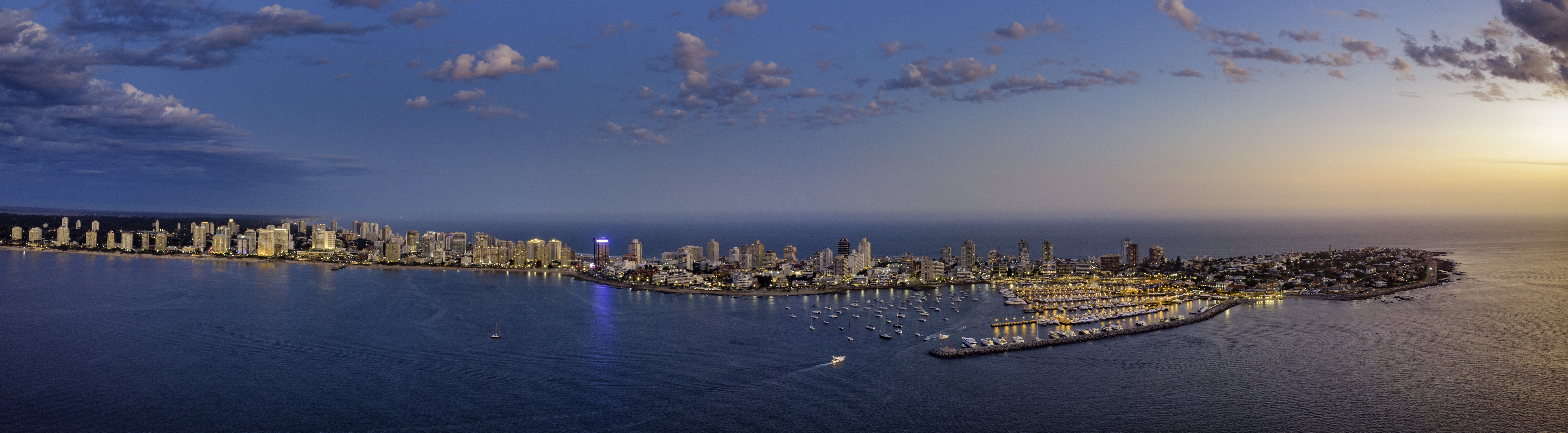 Maldonado, Uruguay 7 RAW photos for pano. 5 mm Exposure: 0.4 sec at f/2.8 ISO: ISO 100